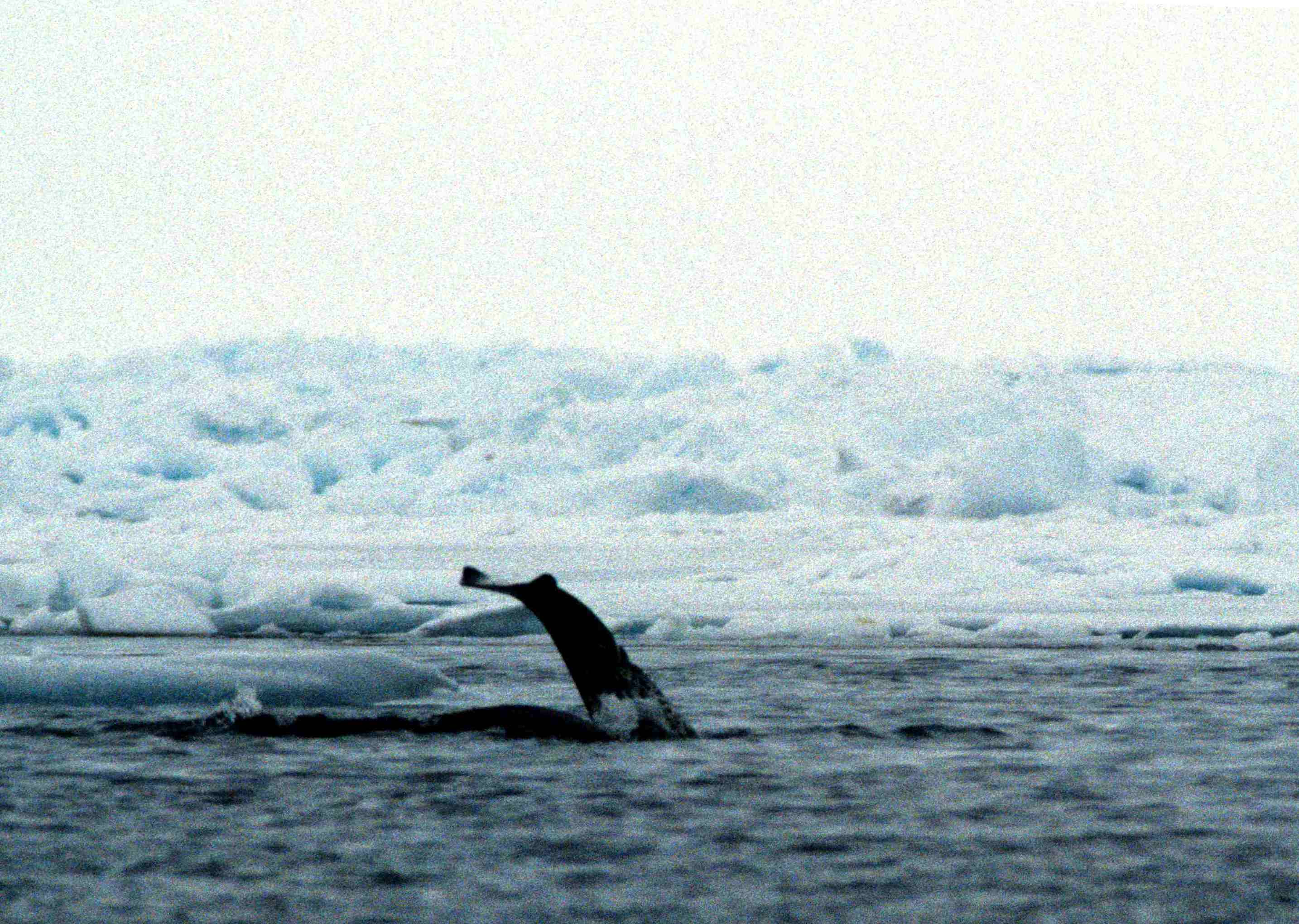 Fluke of a narwhal, photo taken in a polynya of Baffin Bay (north-eastern coast of Bylot Island)